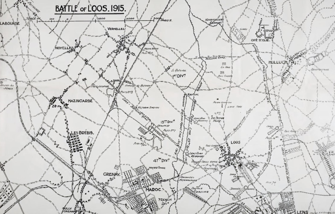 Diagrammatic map of the area of the Battle of Loos 1915